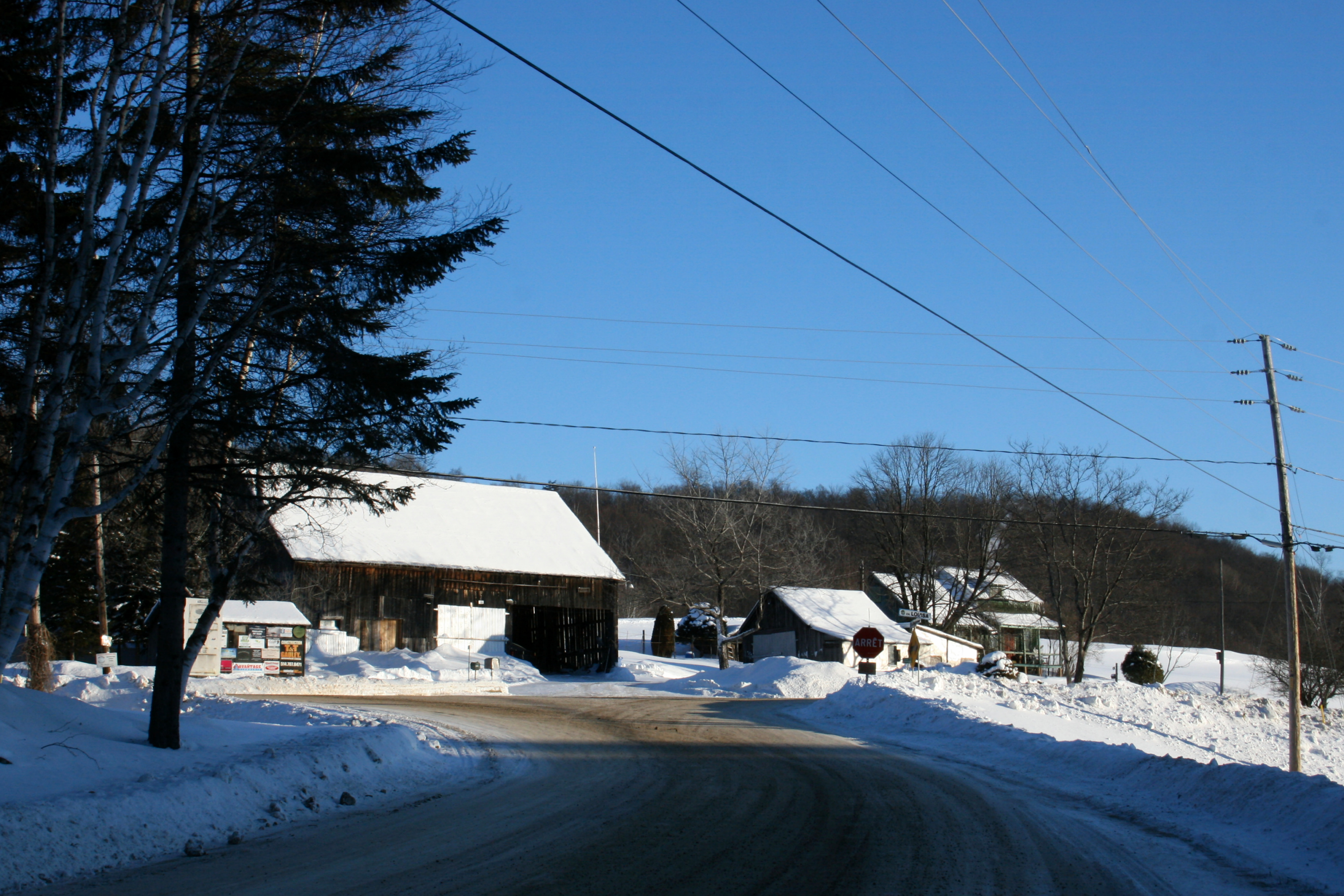 Wentworth, Quebec, Canada